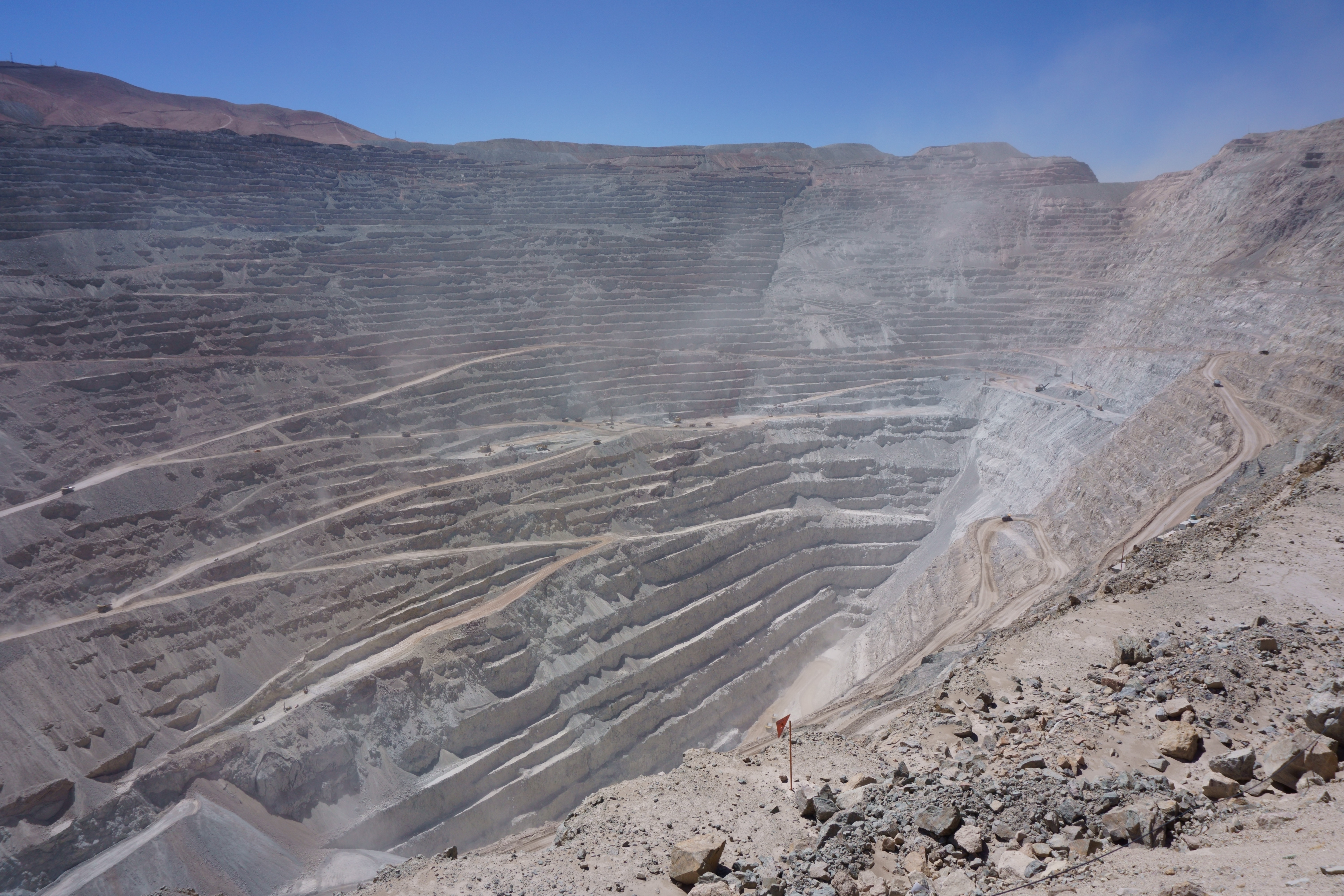 Chuquicamata Mine.